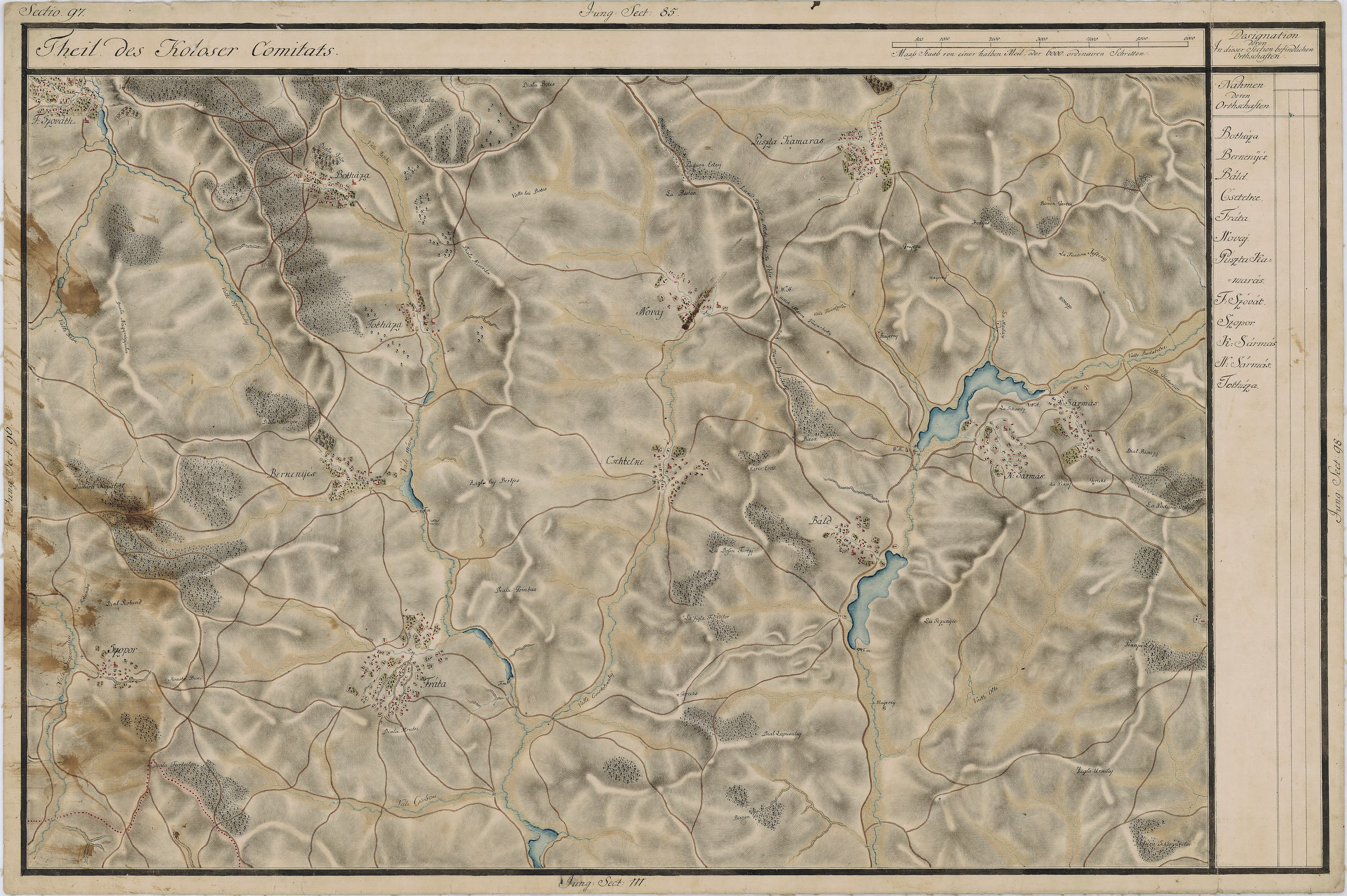 Grand Duchy of Transylvania, 1769-1773. Josephinische Landaufnahme pg.097